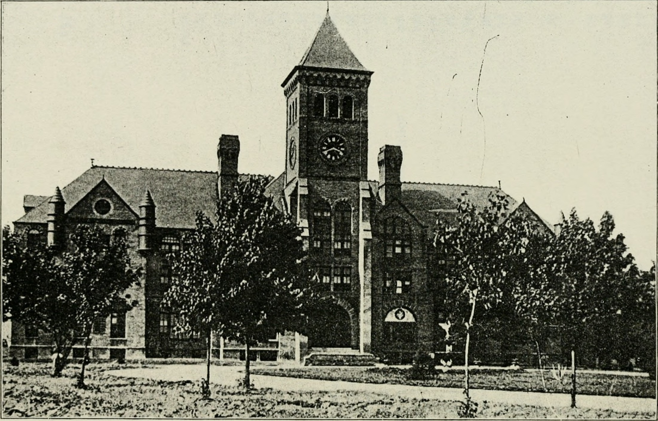 Title: Annual catalogue of Trinity College (Durham, N.C.) Year: 1900 (1900s) Authors: Trinity College (Durham, N.C.) Subjects: Trinity College (Durham, N.C.) Trinity College (Durham, N.C.) Trinity College (Durham, N.C.) Trinity College (Durham, N.C.) Universities and colleges Publisher: Durham, NC : Trinity College Text Appearing Before Image: ics in the above passage,inflecting articles, adjectives and nouns together. 3. Give the principal parts of the following verbs:Spielen, stehen. fallen, gehen, lassen, beschreiben, fliegen,nehmen, mache?i. 4. Decline ich, er, sze, and welcher. 5. Translate the following passage into